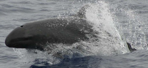 False killer whale